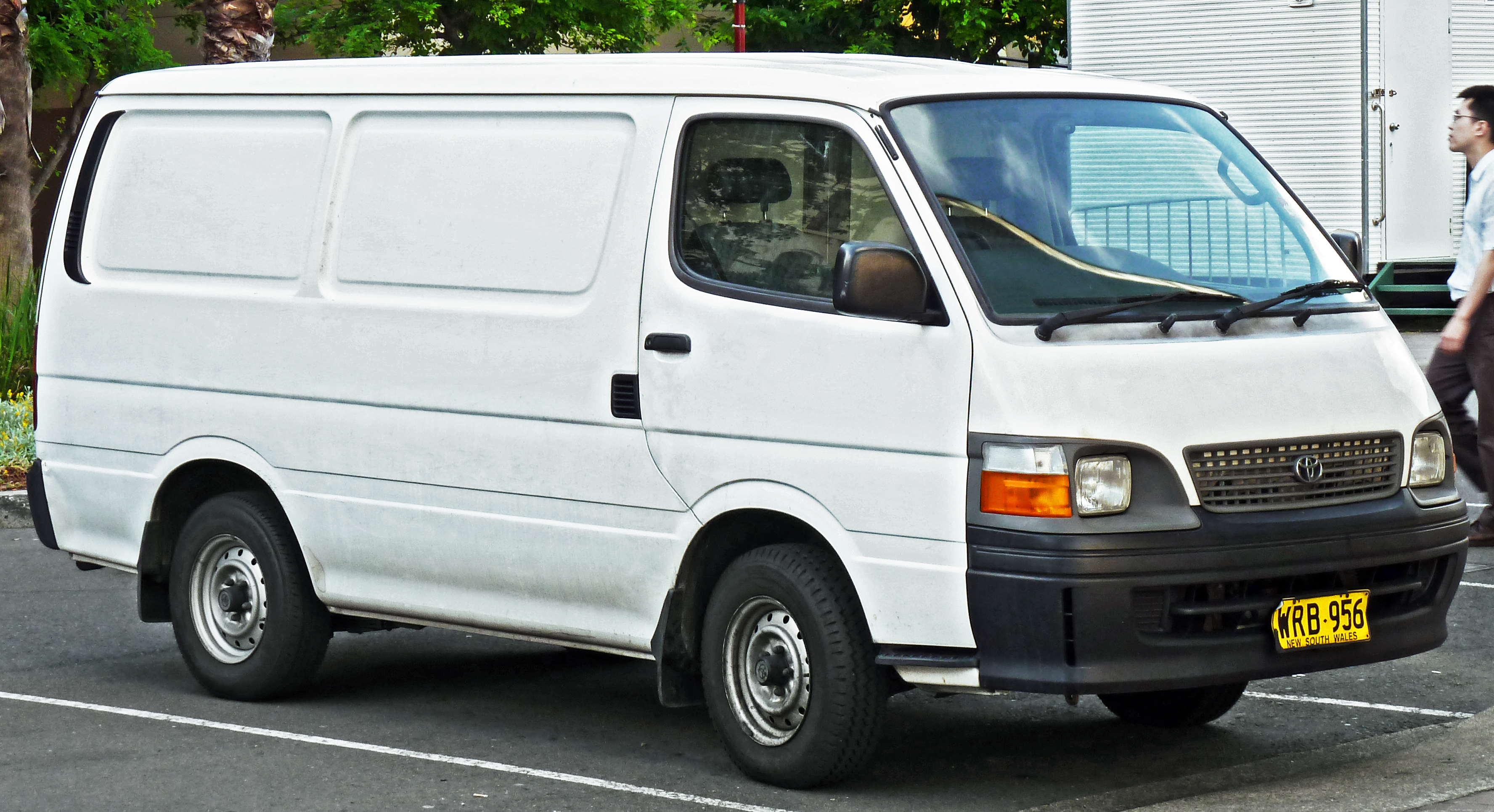 2000 Toyota HiAce (RZH103R) van. Photographed in The Rocks, New South Wales, Australia.